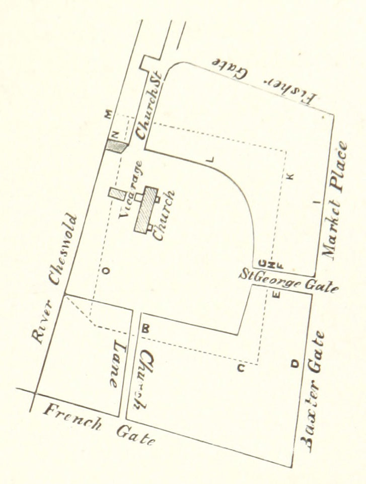 View this map on the BL Georeferencer service. Image taken from: Title: "Doncaster from the Roman occupation to the present time" Author: TOMLINSON, John. Shelfmark: "British Library HMNTS 10368.k.8." Page: 21 Place of Publishing: Doncaster Date of Publishing: 1887 Publisher: J. Tomlinson Issuance: monographic Identifier: 003651660 Explore: Find this item in the British Library catalogue, 'Explore'. Download the PDF for this book (volume: 0) Image found on book scan 21 (NB not necessarily a page number) Download the OCR-derived text for this volume: (plain text) or (json) Click here to see all the illustrations in this book and click here to browse other illustrations published in books in the same year. Order a higher quality version from here.